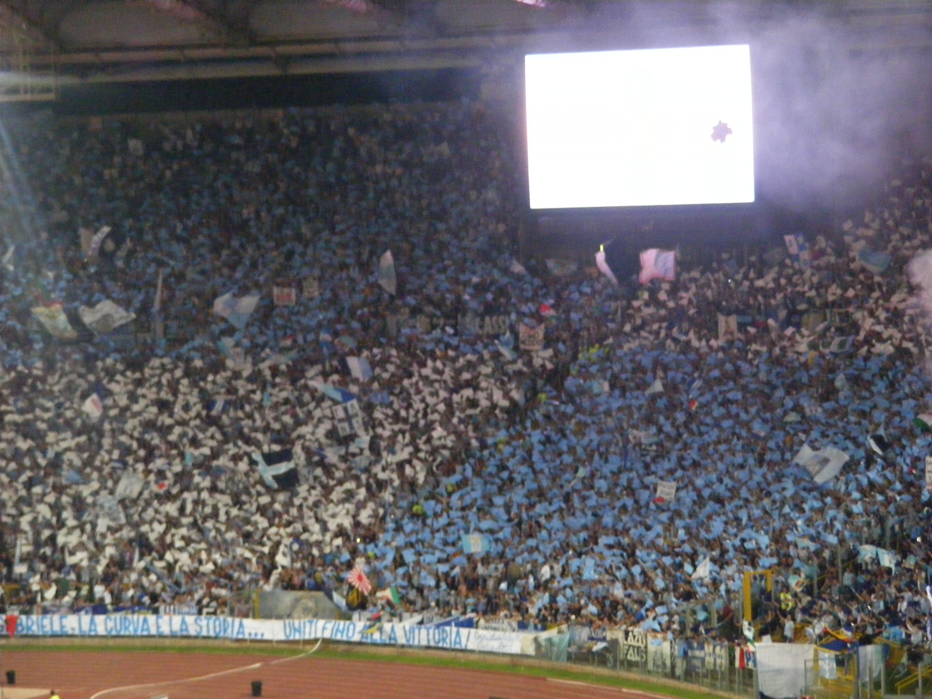 Supporters during Lazio-Sampdoria